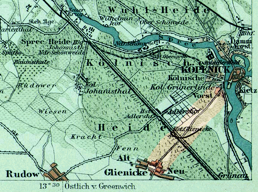 Position plan of the road "Glienicker Wegs", Berlin-Treptow, 1894